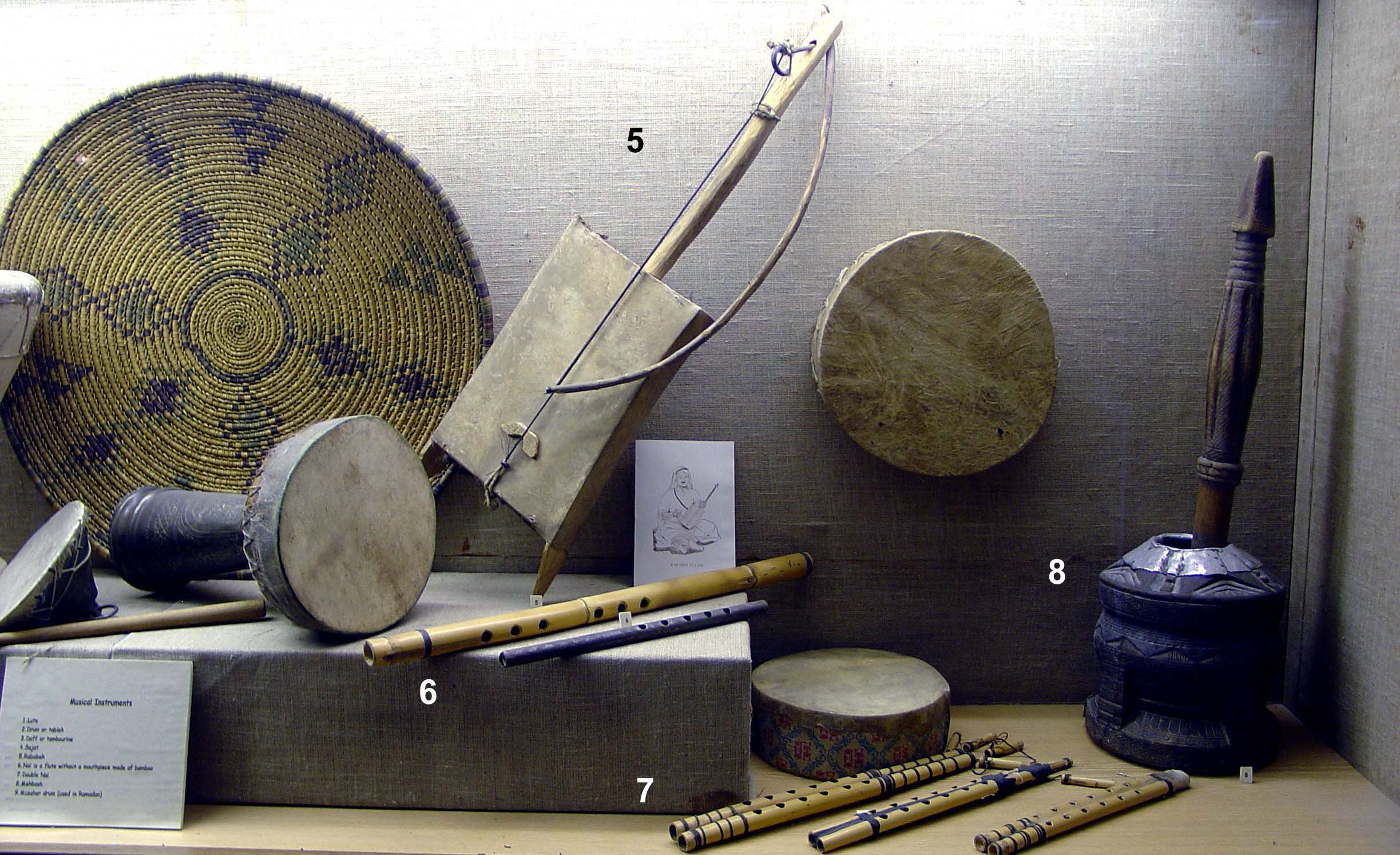 The Amman Folklore Museum is housed in a side entrance chamber (vomitorium) of the Roman Theatre. [Quote of a description board, including reading error probably] Musical Instruments 1. Lute 2. Drum or tablah 3. Daff or tambouring 4. Sejet 5. Rebabeh 6. Nai is a flute without a mouthpiece of bamboo 7. Double Nai 8. Mehbcsh ? 9. Musher drum (used in R...)